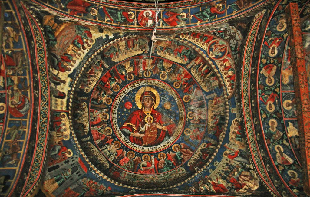 Holy Trinity in Vythos Dolos Monastery Fresco